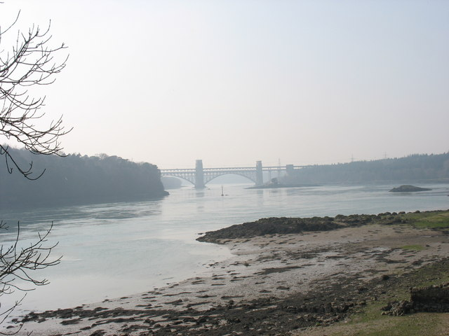 The notorious Swellies at low tide The Swellies are known in Welsh as Pwll Ceris. It is described in an 18th C englyn thus: Pwll Ceris, pwll dyrys drud - pwll yw hwn Sy'n gofyn cyfarwydd. Pwll annyfn yw, pwll ynfyd, Pella o'i go' o'r pylla' i gyd [Ceris Pool, uniquely complex pool, a pool is this that demands local knowledge, a hellish pool, a crazy pool, the most insane of all pools].